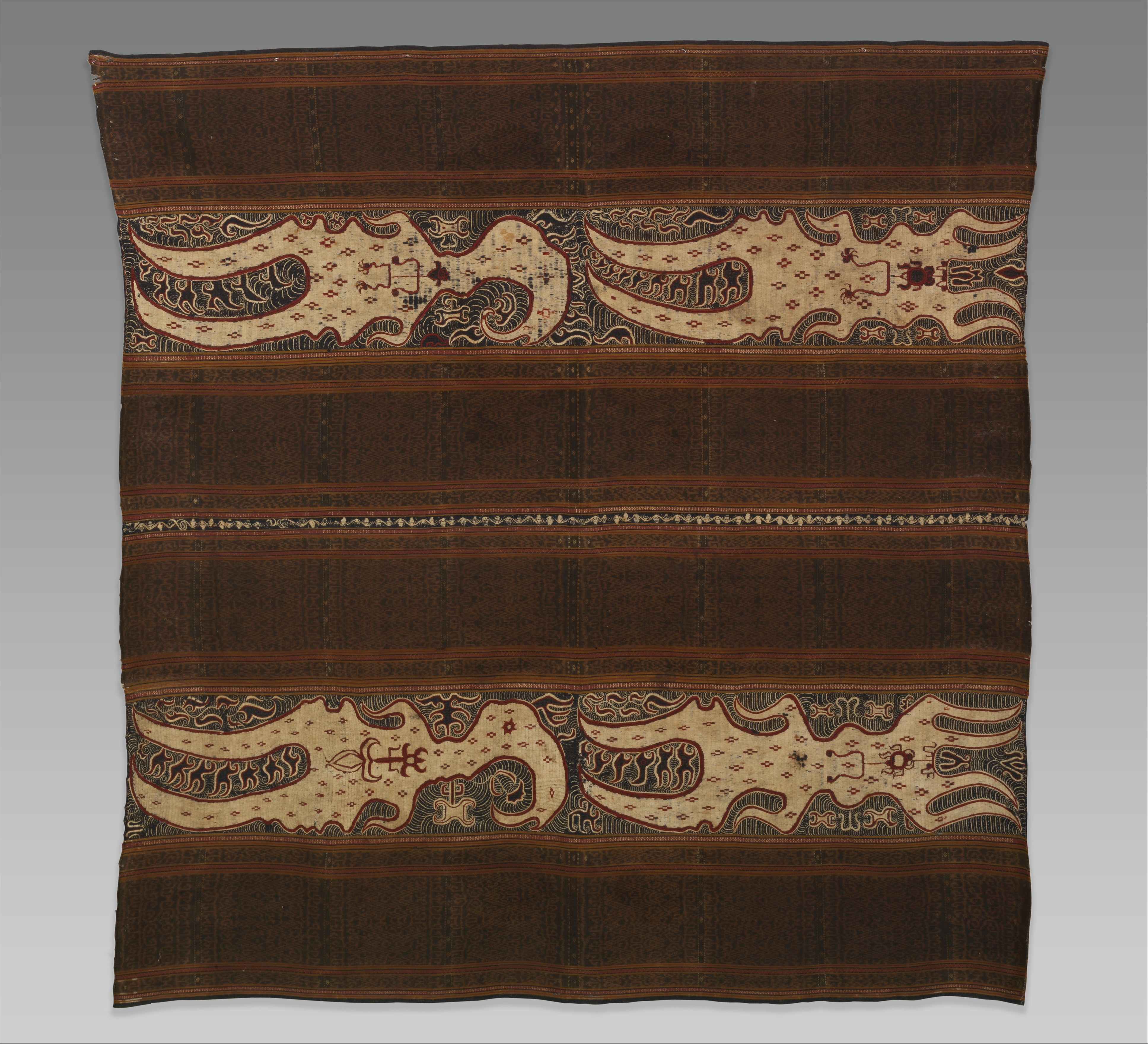 Lampung; Skirt; Textiles-Woven